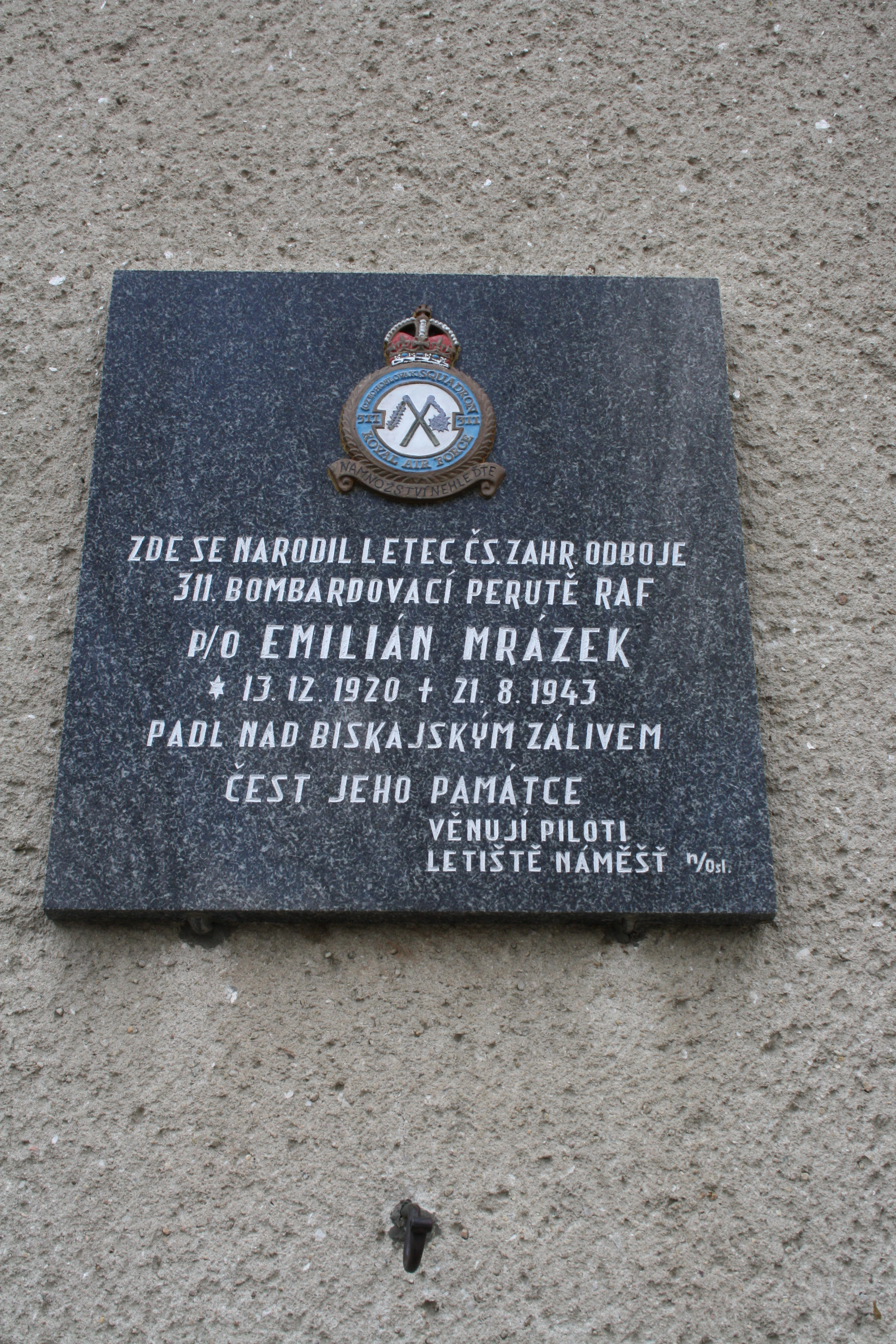 Plaque of Emilian Mrázek at Náměšť nad Oslavou Train station.